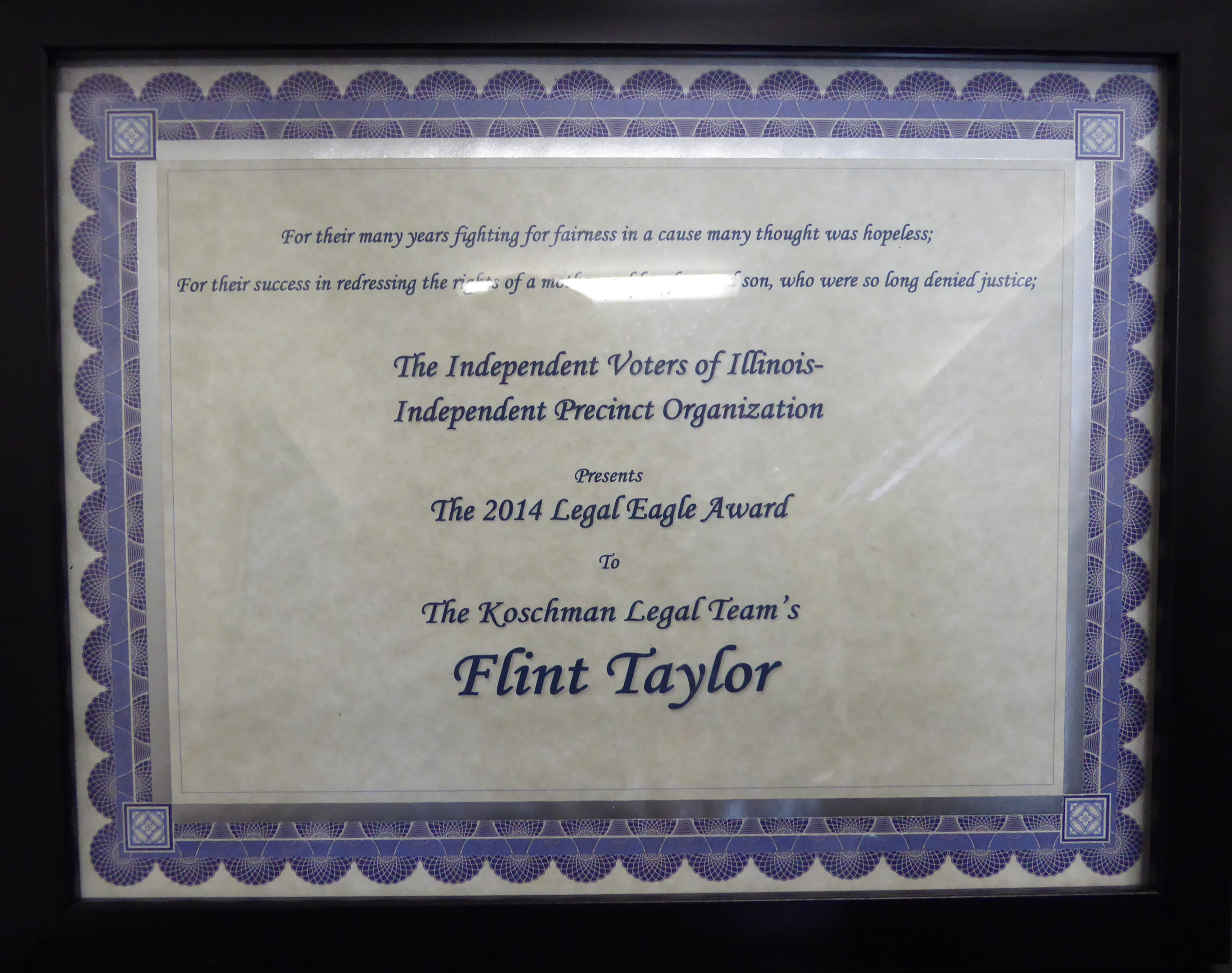 The IVI-IPO’s Legal Eagle Award, which is given annually to lawyers who have advanced the cause of justice, was presented to Locke Bowman, Director of the MacArthur Justice Center; G. Flint Taylor, a founding partner of the People’s Law Office; and Alexa Van Brunt, Clinical Assistant Professor of Law and attorney for the MacArthur Justice Center. The three attorneys were recognized for their pursuit of justice for the family of David Koschman, the 29-year-old who died in 2004 after being punched by Richard J. Vanecko, a nephew of former Mayor Richard M. Daley. In 2011, the MacArthur Justice Center and the People’s Law Office petitioned for the appointment of an independent prosecutor to investigate Koschman’s death and alleged the initial police investigation into his death may have been influenced by Vanecko’s relationship to Daley. As a result of the special prosecutor’s investigation, Vanecko was indicted for involuntary manslaughter. Earlier this year, Vanecko entered a guilty plea and served a 60-day jail sentence.